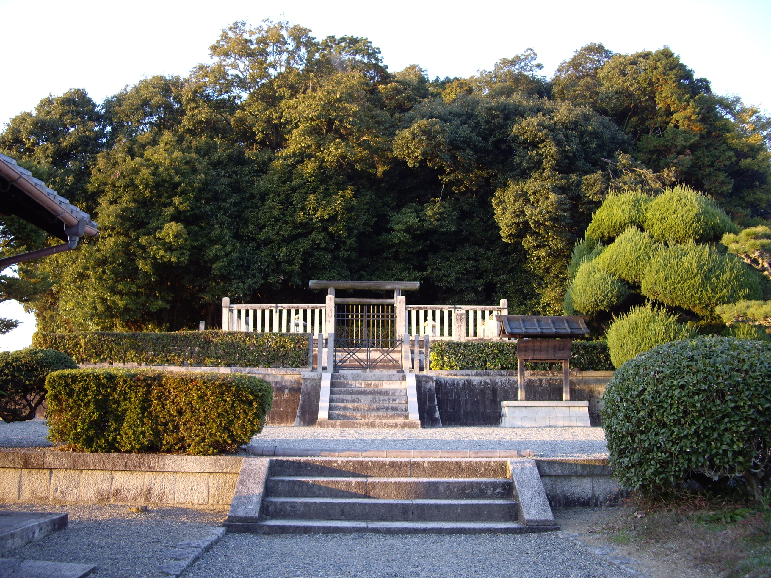 The Mausoleum of Emperor Temmu and Empress Jitō, in Asuka, Nara Prefecture, Japan